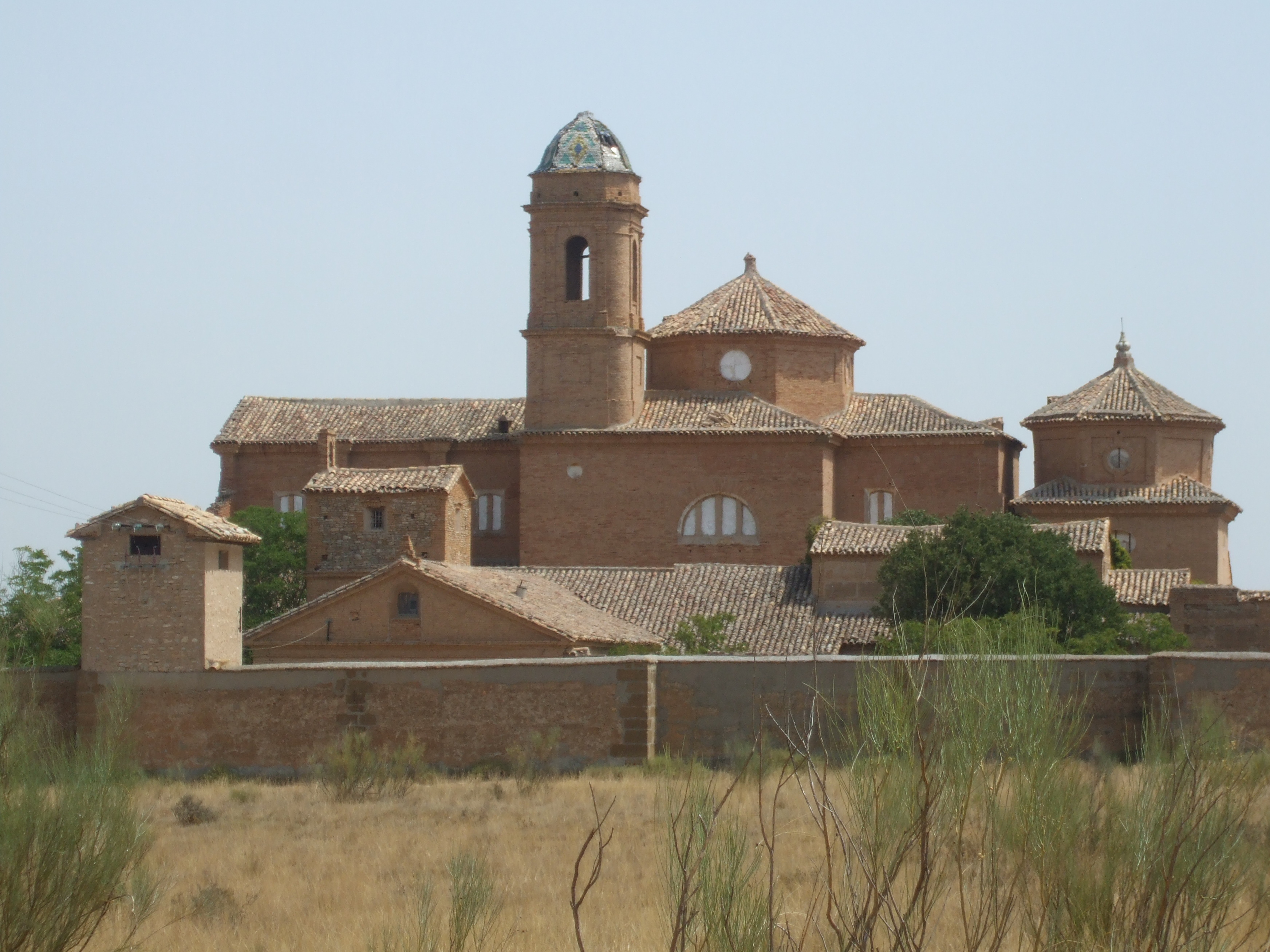 Cartuja de las Fuentes between Sariñena and Lanaja, Aragon Region, Spain, view from a westerly direction: The main tower shows clearly some damages, which were supposedly inflicted upon the building by a crashing German aircraft during the Spanish civil war. Although sources are contradicting it may well be that it was damaged on April 4th, 1938 by one of two Jagdgruppe 88 Messerschmitt Bf 109B (6-20 and 6-21), which were involved in a mid-air collision upon their final approach to Lanaja airfield.